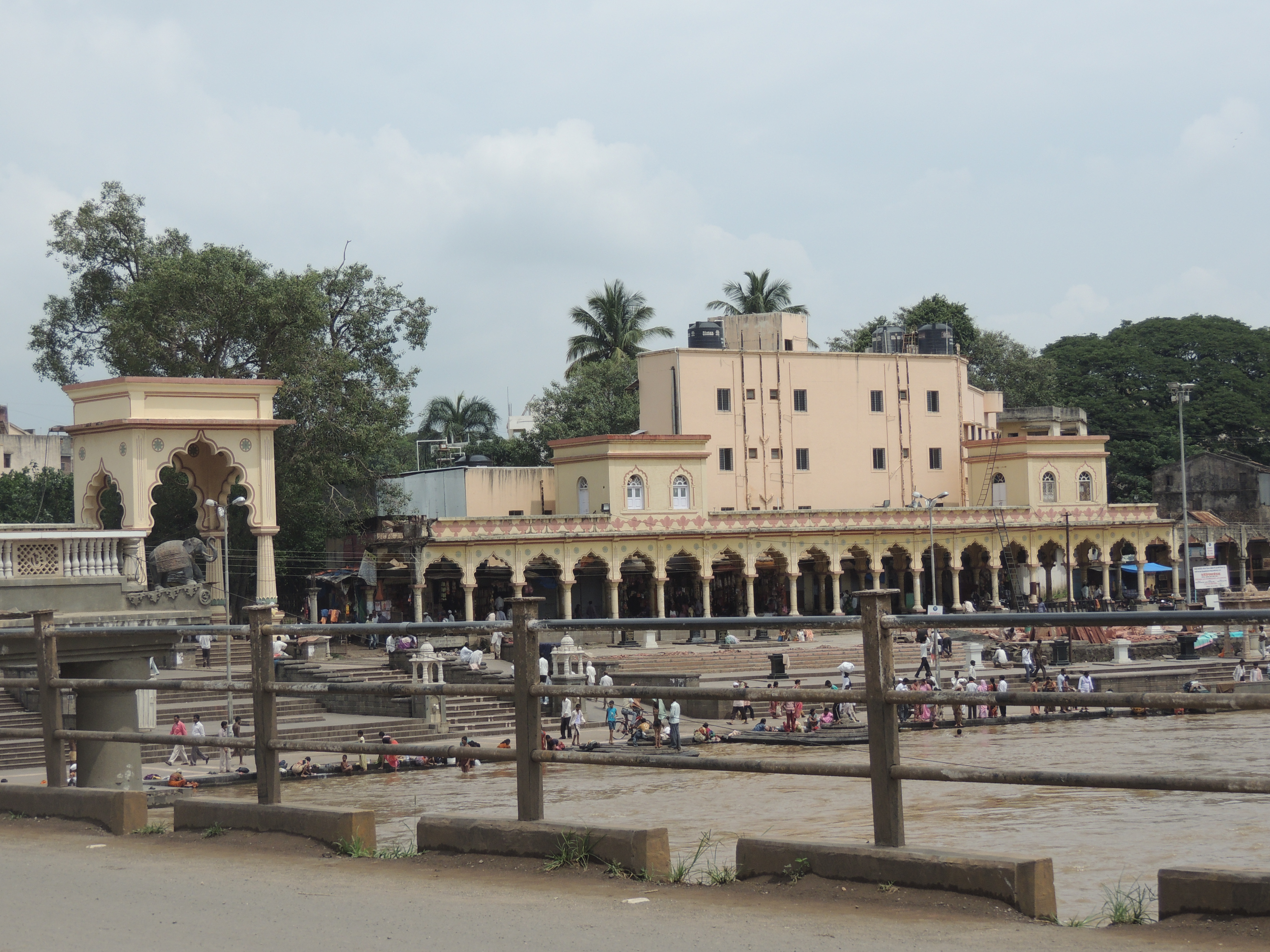 Alandi Pune